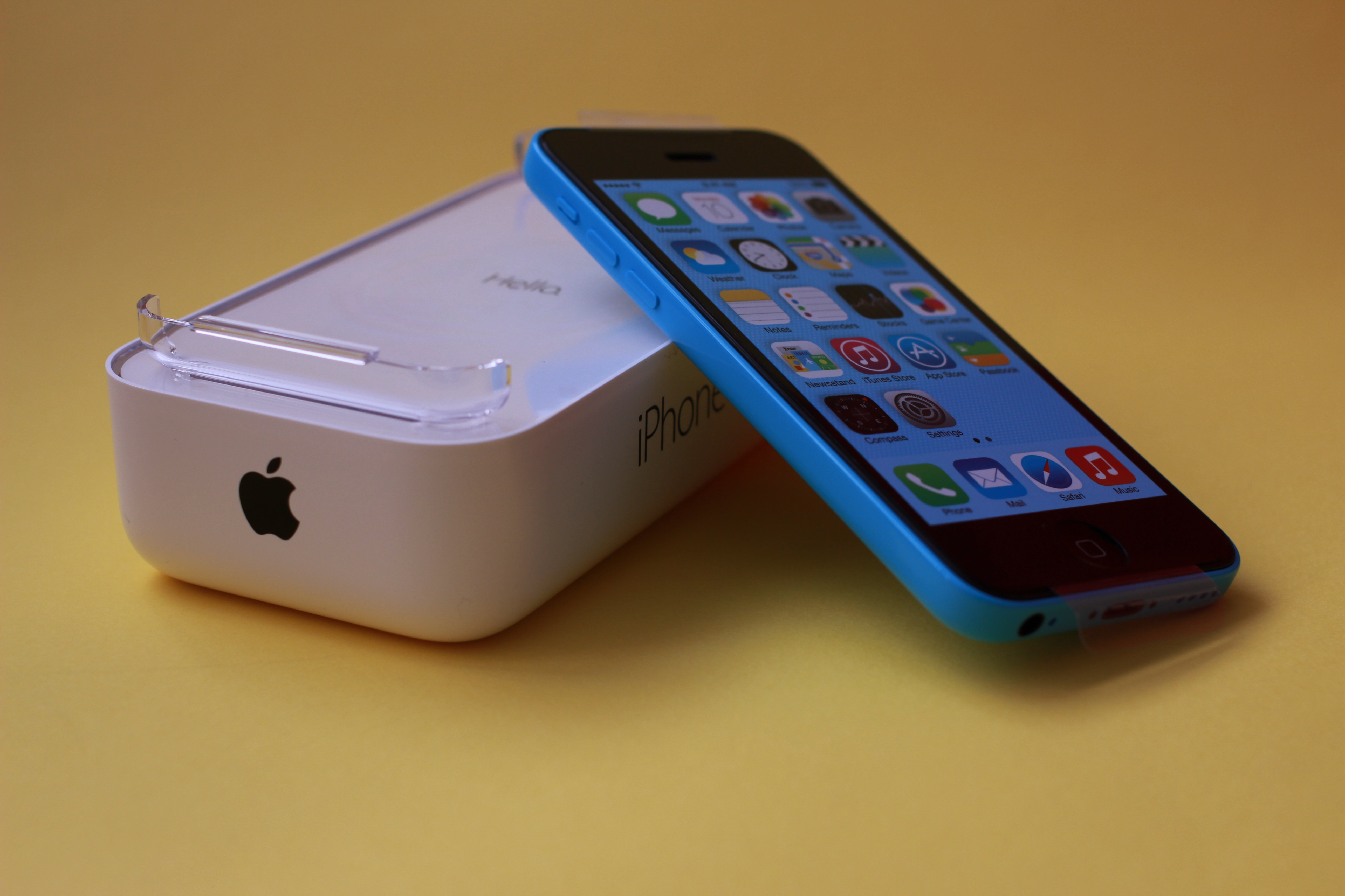 Apple iPhone 5c